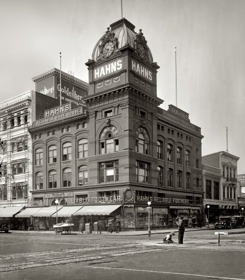 Hahn's Shoe Store located at 7th and K Streets, NW in Washington, D.C. Hahn's Department Stores was the predecessor to Allied Stores. The site is now occupied by Blackboard Inc. headquarters.